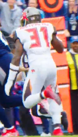 Jordan Whitehead 2019. Image from video Derrick Henry's Best Runs vs. Bucs | Beneath the Surface, ~ 01:18.